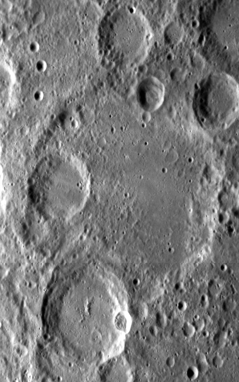 Hiroshige crater on Mercury. Mosaic of two MESSENGER Narrow Angle Camera images. Top 2/3 is EN1068021784M, unmodified other than slight cropping. Bottom 1/3 is EN1068111229M, compressed horizontally to match the top image better. The two images were taken 1 day apart and thus lighting is slightly different. Info below is for top image. Emission Angle: 34.3 Incidence Angle: 64.7 Latitude: -12.5 Longitude: 333.2 Phase Angle: 98.9